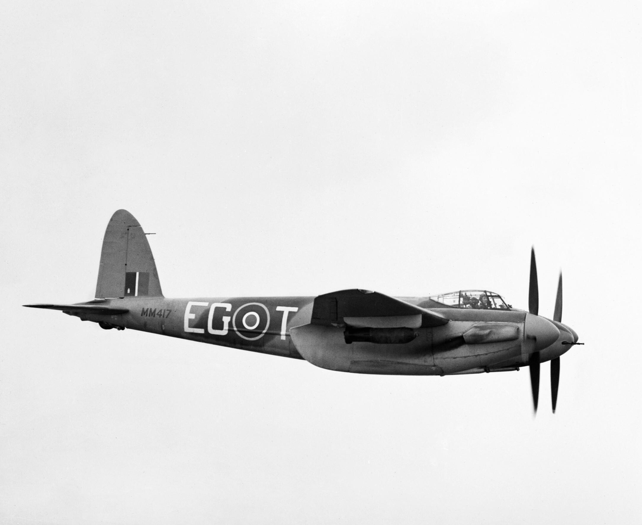 De Havilland Mosquito FB Mk VI of No. 487 Squadron RNZAF based at Hunsdon, Hertfordshire, 28 February 1944. Mosquito FB Mark VI Series 2, MM417 ‘EG-T’, of No. 487 Squadron RNZAF based at Hunsdon, Hertfordshire, in flight carrying two 500-lb MC bombs on underwing carriers.